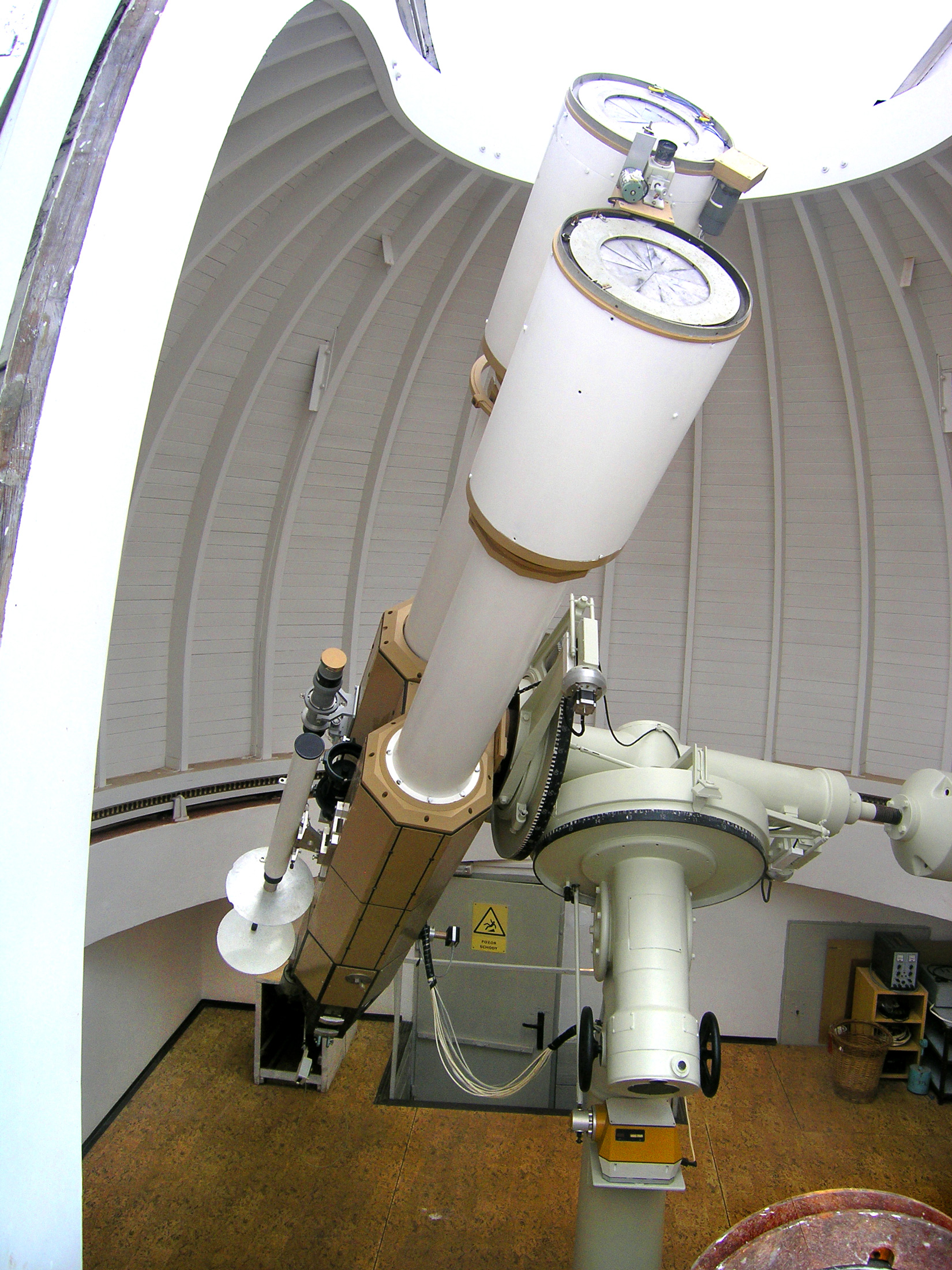 Solar Telecope at the Czech Astronomical Institute in Ondřejov